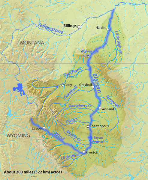 Map of the Bighorn River watershed in Wyoming and Montana, USA